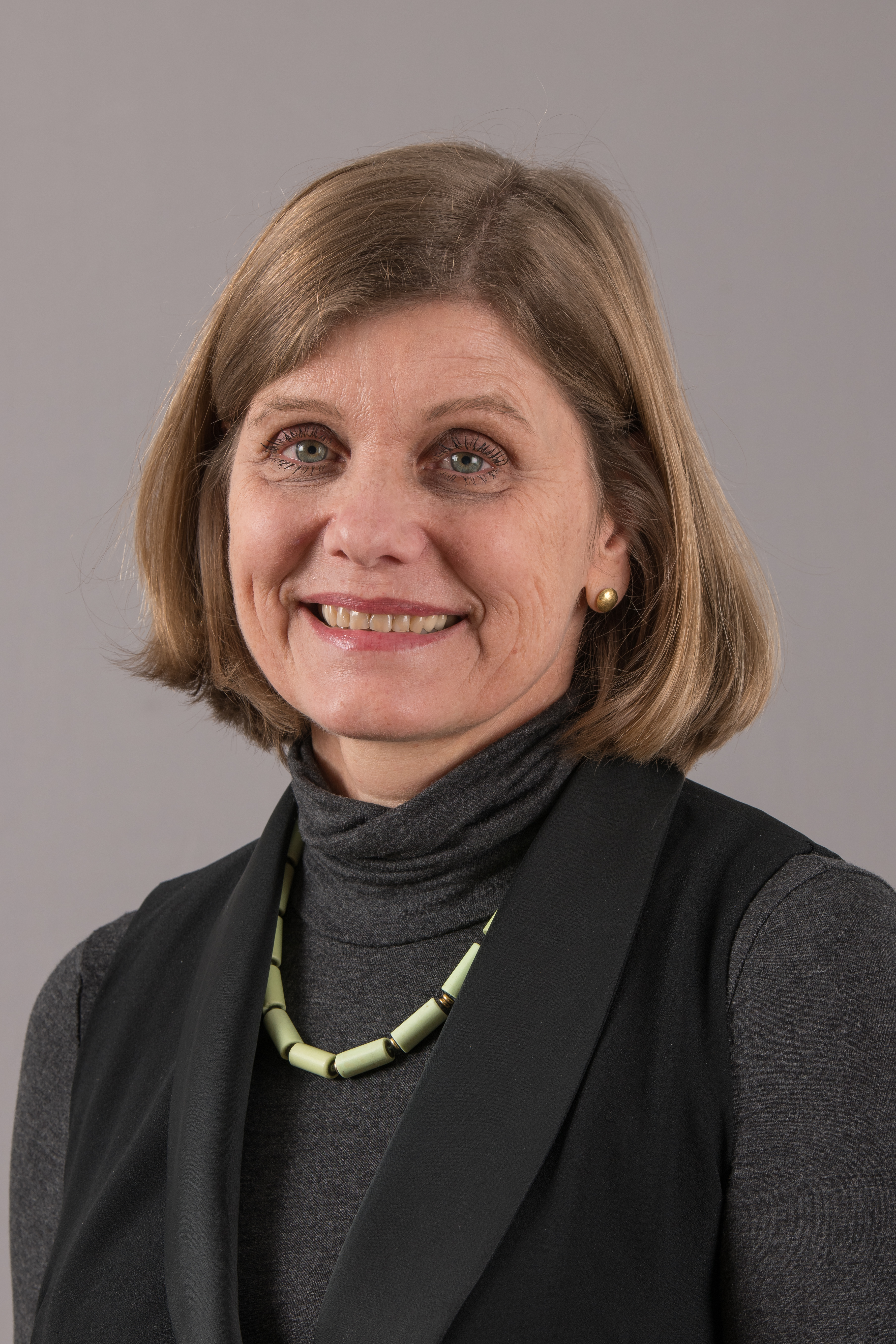 13/12/17, Bregenz/Vorarlberg, Landtagsprojekt Vorarlberg. Picture shows Barbara Schöbi-Fink (ÖVP), delegate to the Vorarlberger Landtag since 2014